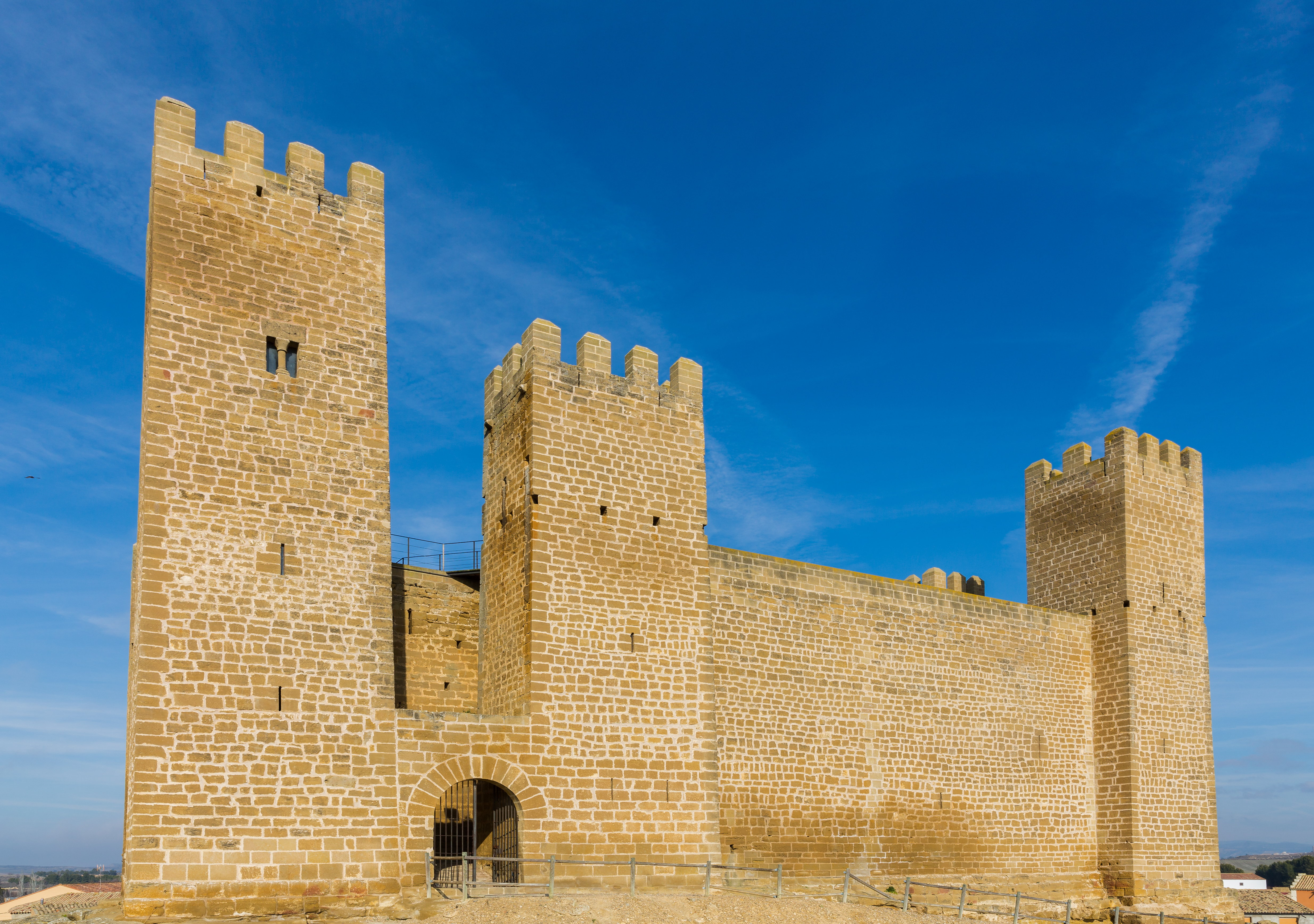 Castle of Sádaba, Huesca, Spain